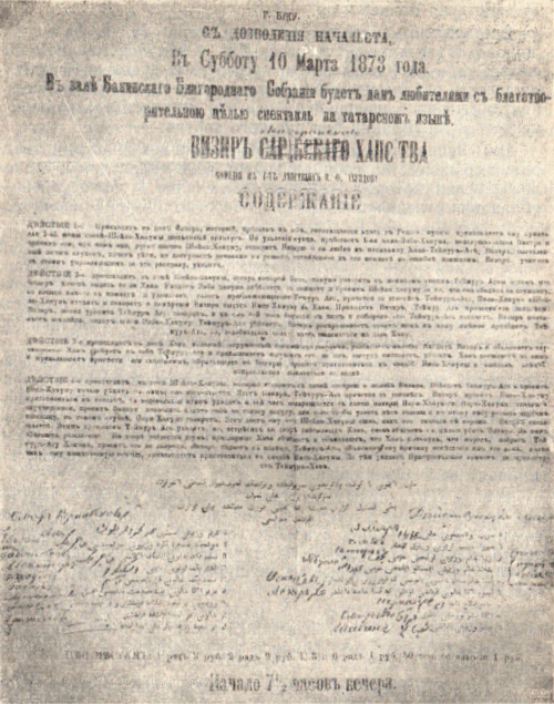 Афиша спектакля М. Ф. Ахундова "Визирь Ленкоранского ханства" состоявшегося в 1873 г.